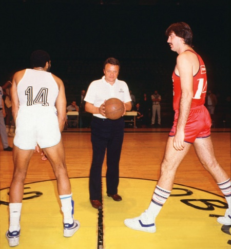 León Najnudel, one of the promoters for the creation of Liga Nacional de Basquet, holding the ball before the first LNB match ever, San Lorenzo v. Argentino de Firmat.